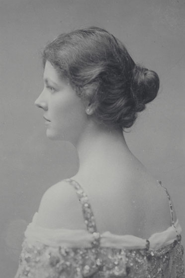 Description: Paula Beer-Hofmann. This photograph is from the Richard Beer-Hofmann Collection. Richard Beer-Hofmann was born on July 11, 1866. He was one of the most influential members of the circle of Viennese writers known as “Young Vienna”. Creator/Photographer: Unknown Object Origin: Unknown Medium: Black and white photographic print Date: 1910 Repository:Leo Baeck Institute Parent Collection: Richard Beer-Hofmann Collection Call Number: AR 745 Rights Information: No known copyright restrictions; may be subject to third party rights. For more copyright information, click here. Find more information about this image and others at CJH Archives and Library Catalog.